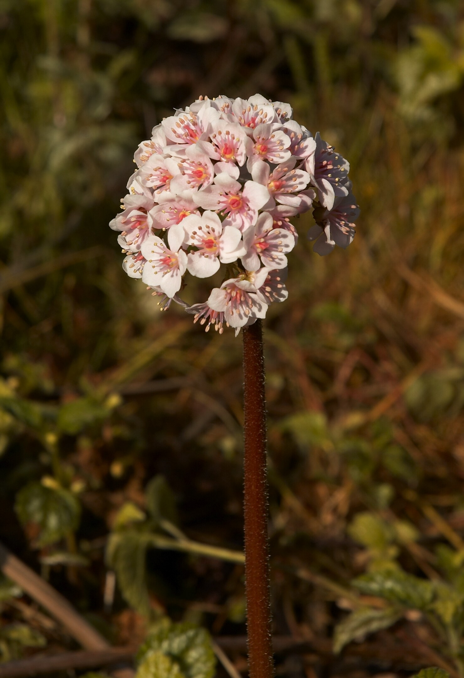 Indian rhubarb or Umbrella plant